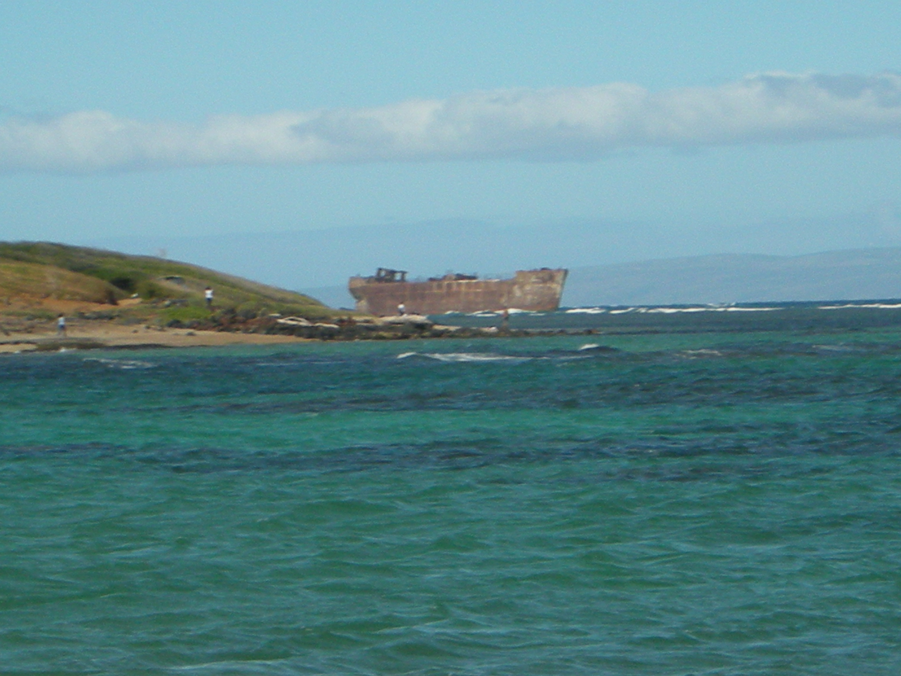 View of the shipwreck at Shipwreck Beach, Lānaʻi, Hawaii